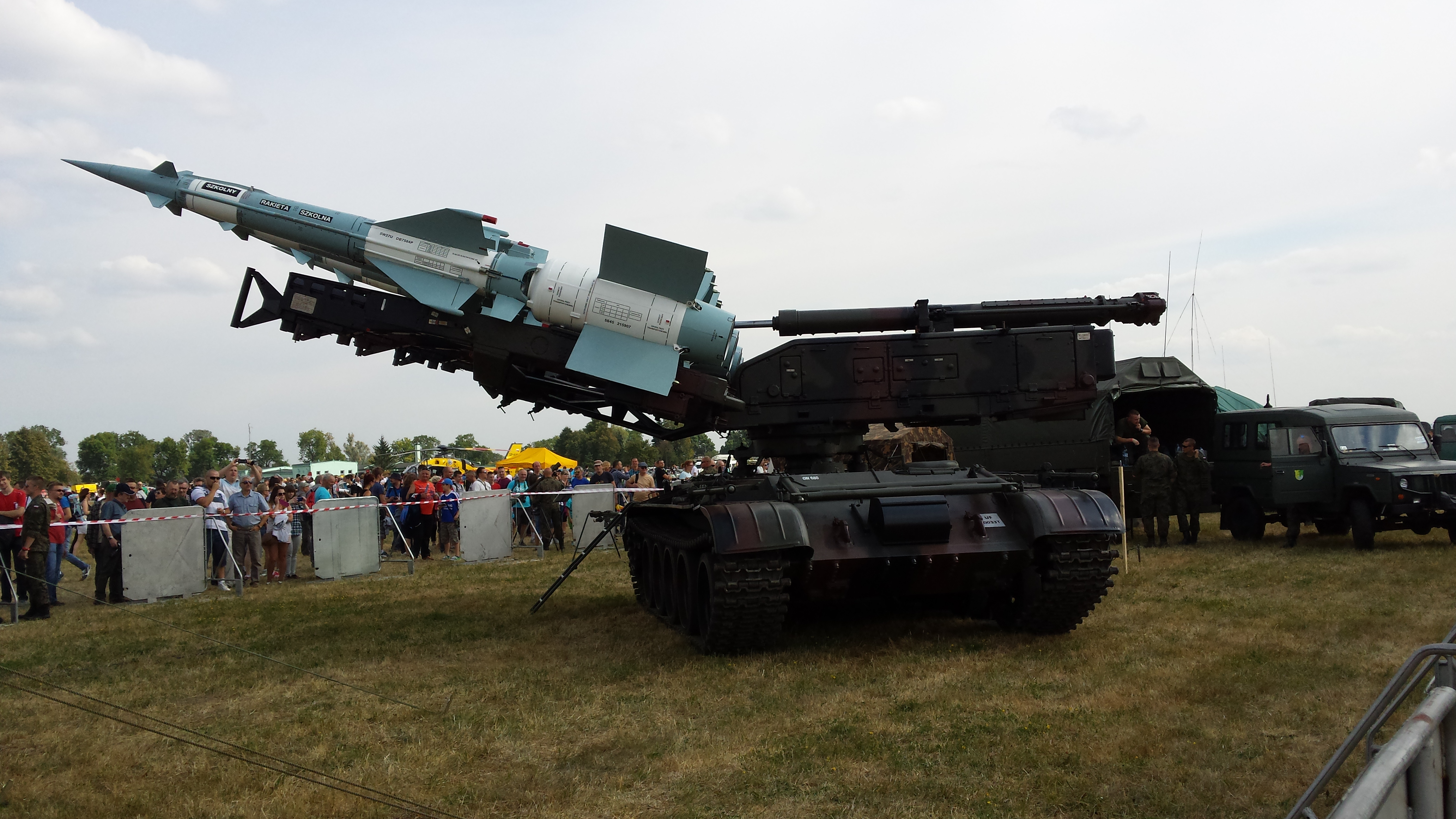 Newa anti-aircraft missles in Radom